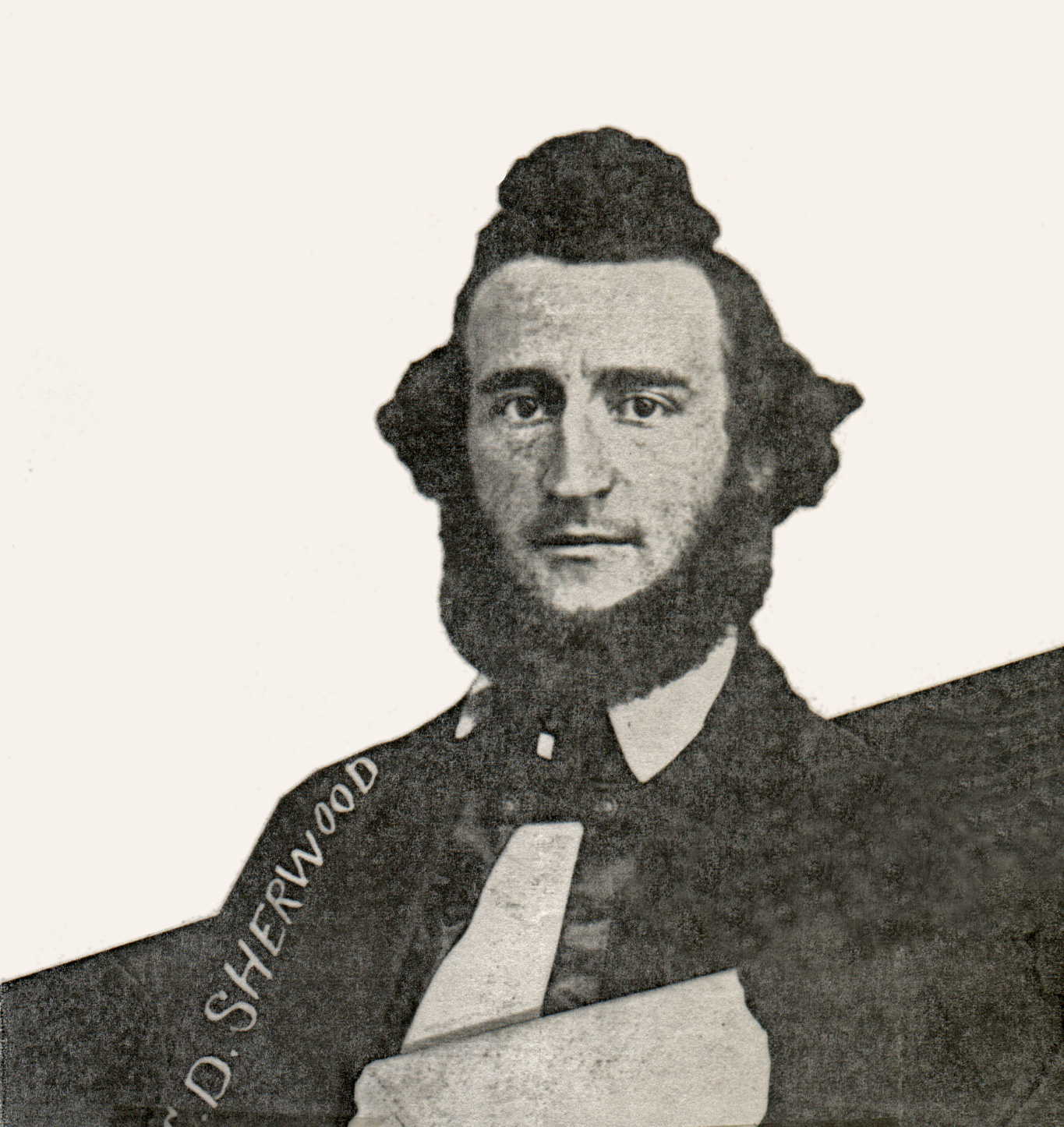 Detail of an 1865 group photo of the Minnesota State Senate showing Charles D. Sherwood.